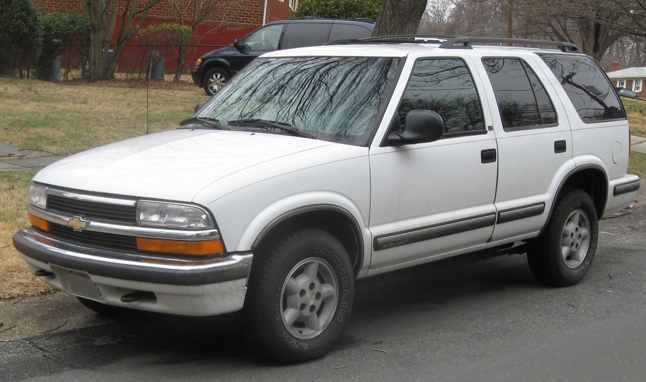 1998-2005 Chevrolet S-10 Blazer photographed in Rockville, Maryland, USA.